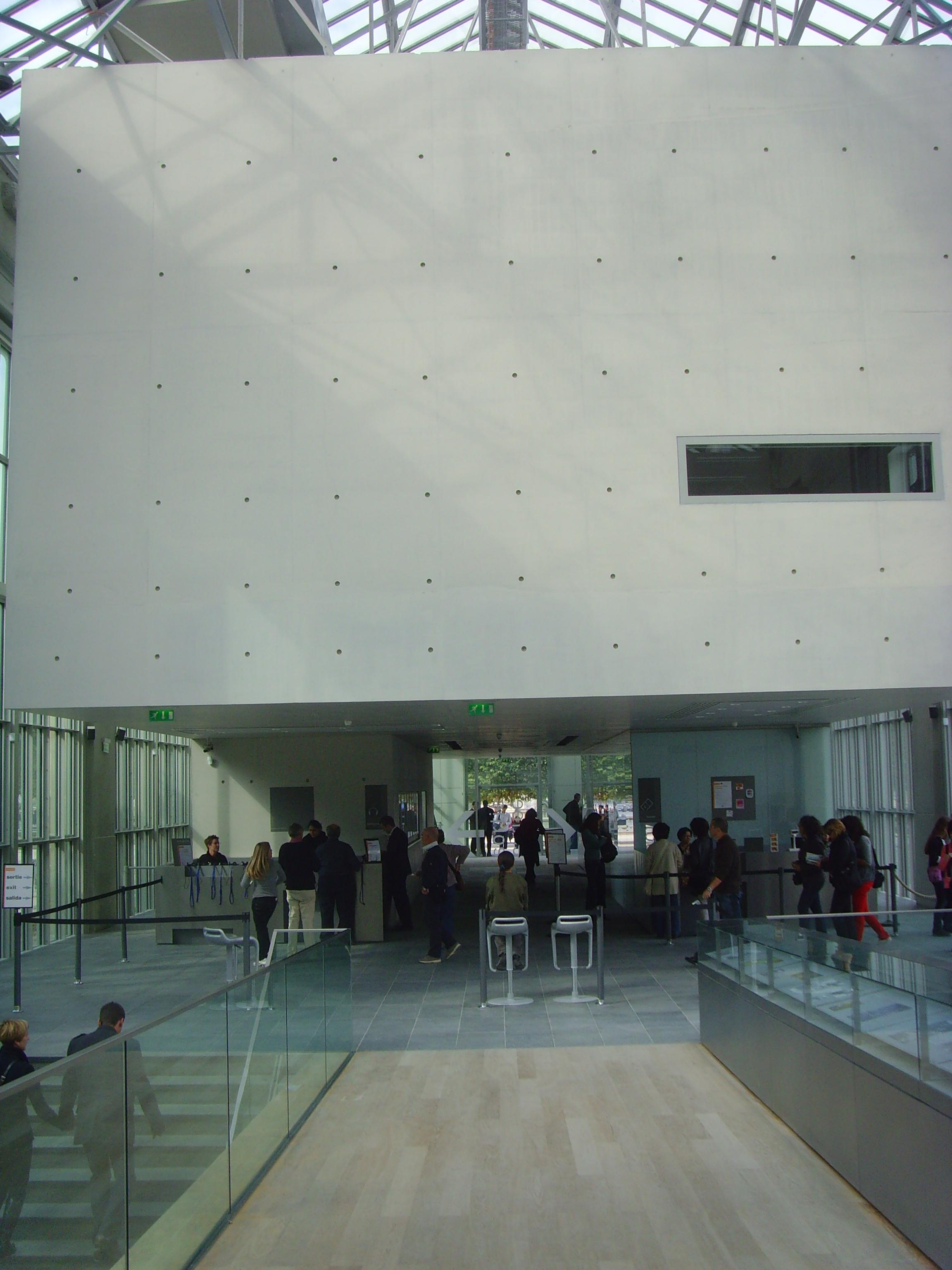 Interior of Musée de l'Orangerie in Paris